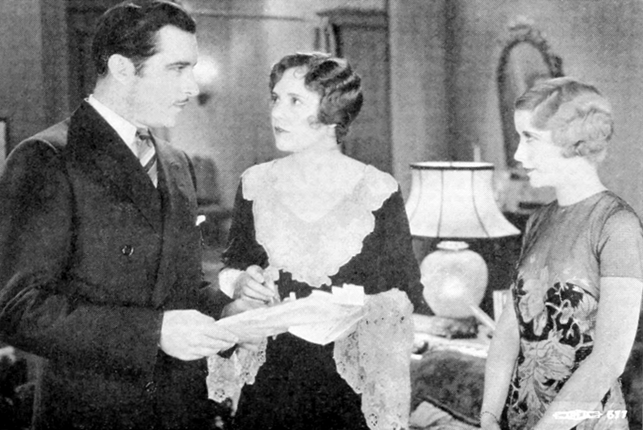 Promotional photograph of John Boles, Lois Wilson and Genevieve Tobin in the 1931 film Seed